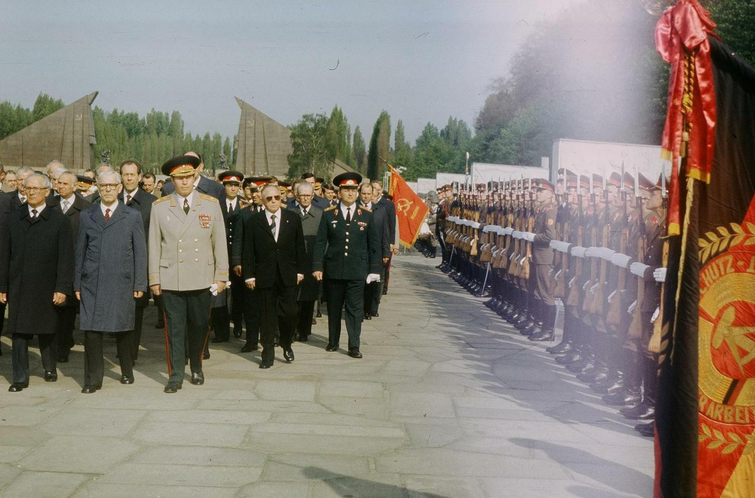 Treptower Park Berlin 1982.